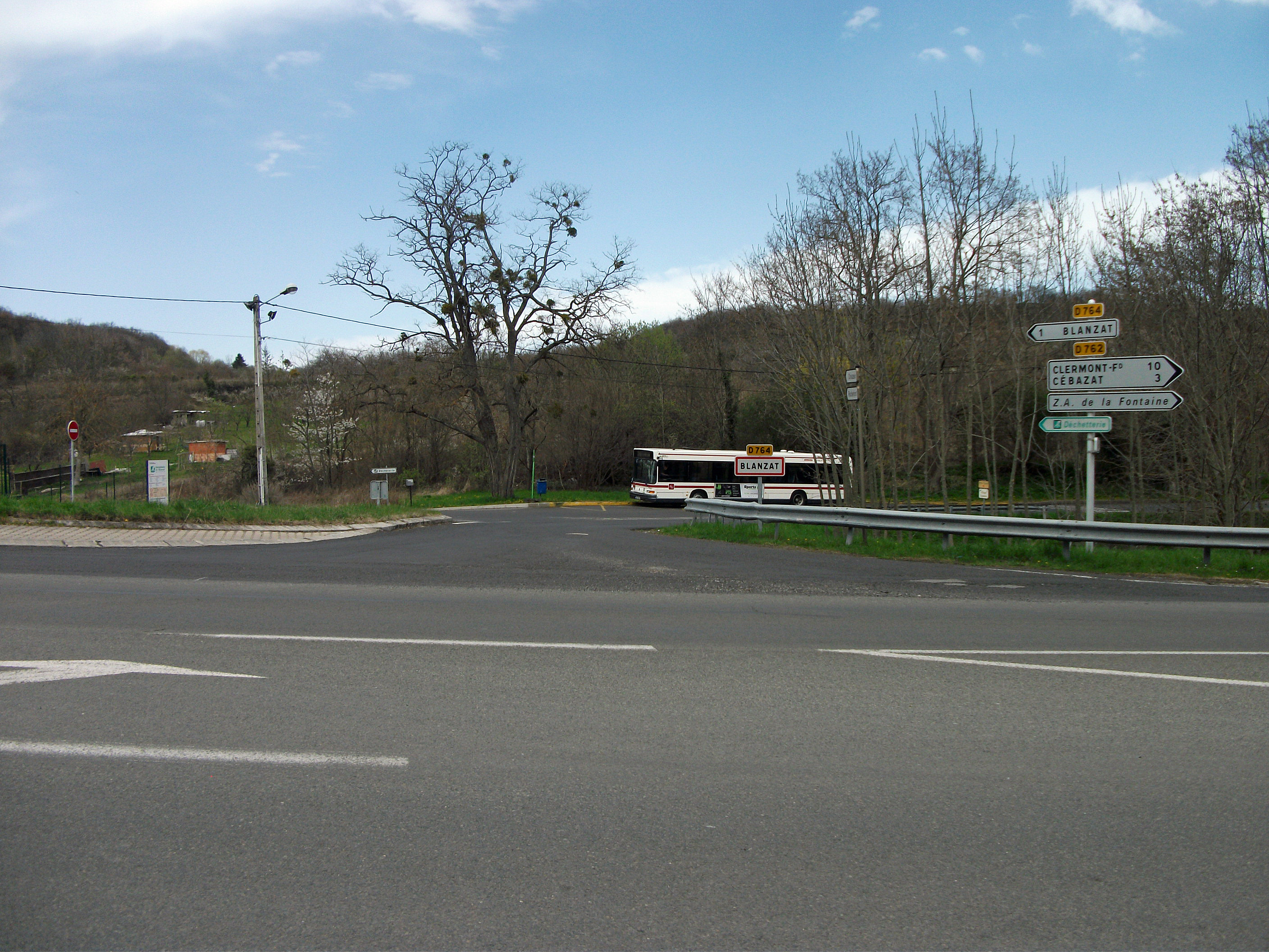 Departmental road 764 and bus (line 24) of T2C at stop (former Puy de l'Orme), in Blanzat, Puy-de-Dôme, Auvergne, France.